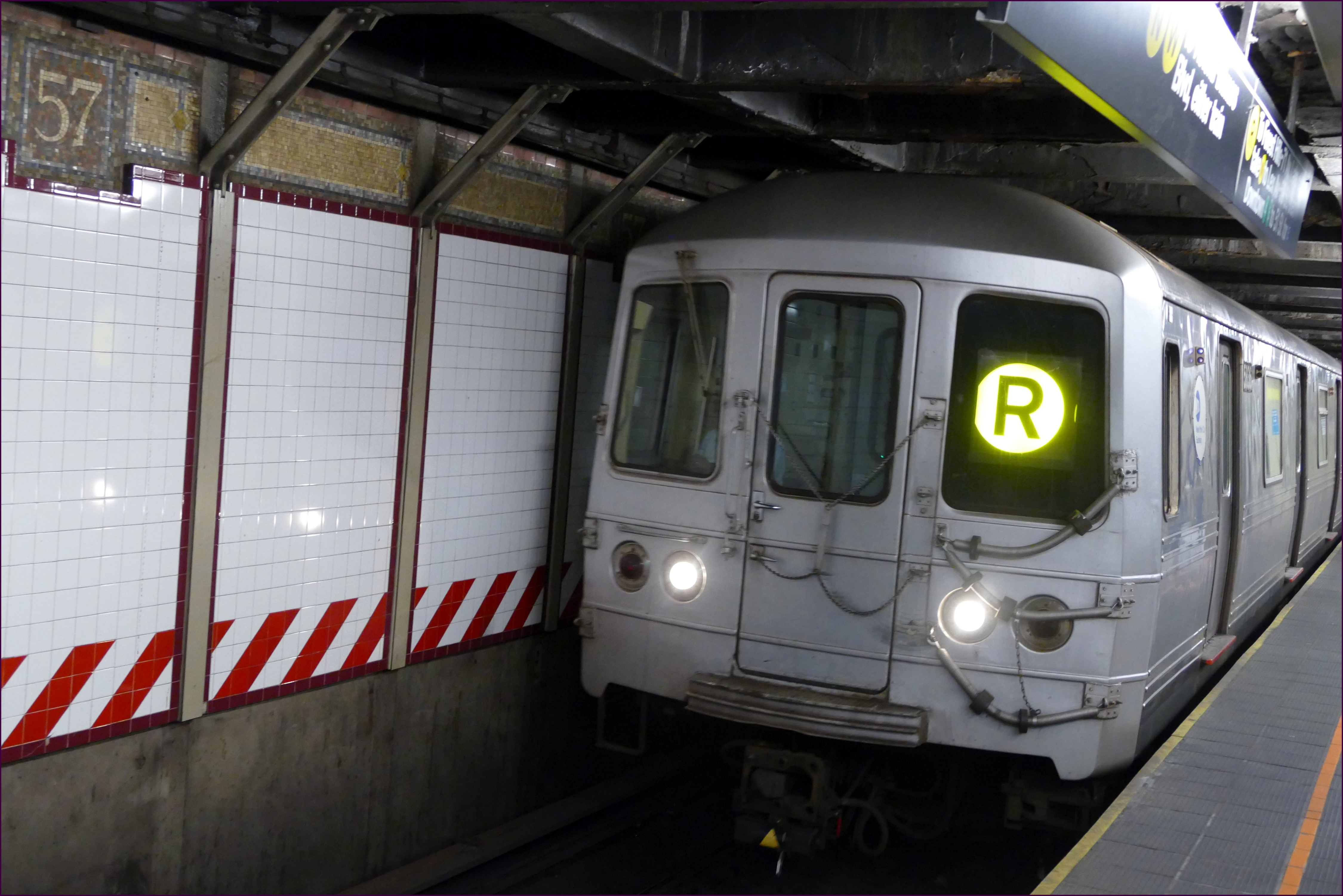 Opening Day for the 2 Av Subway